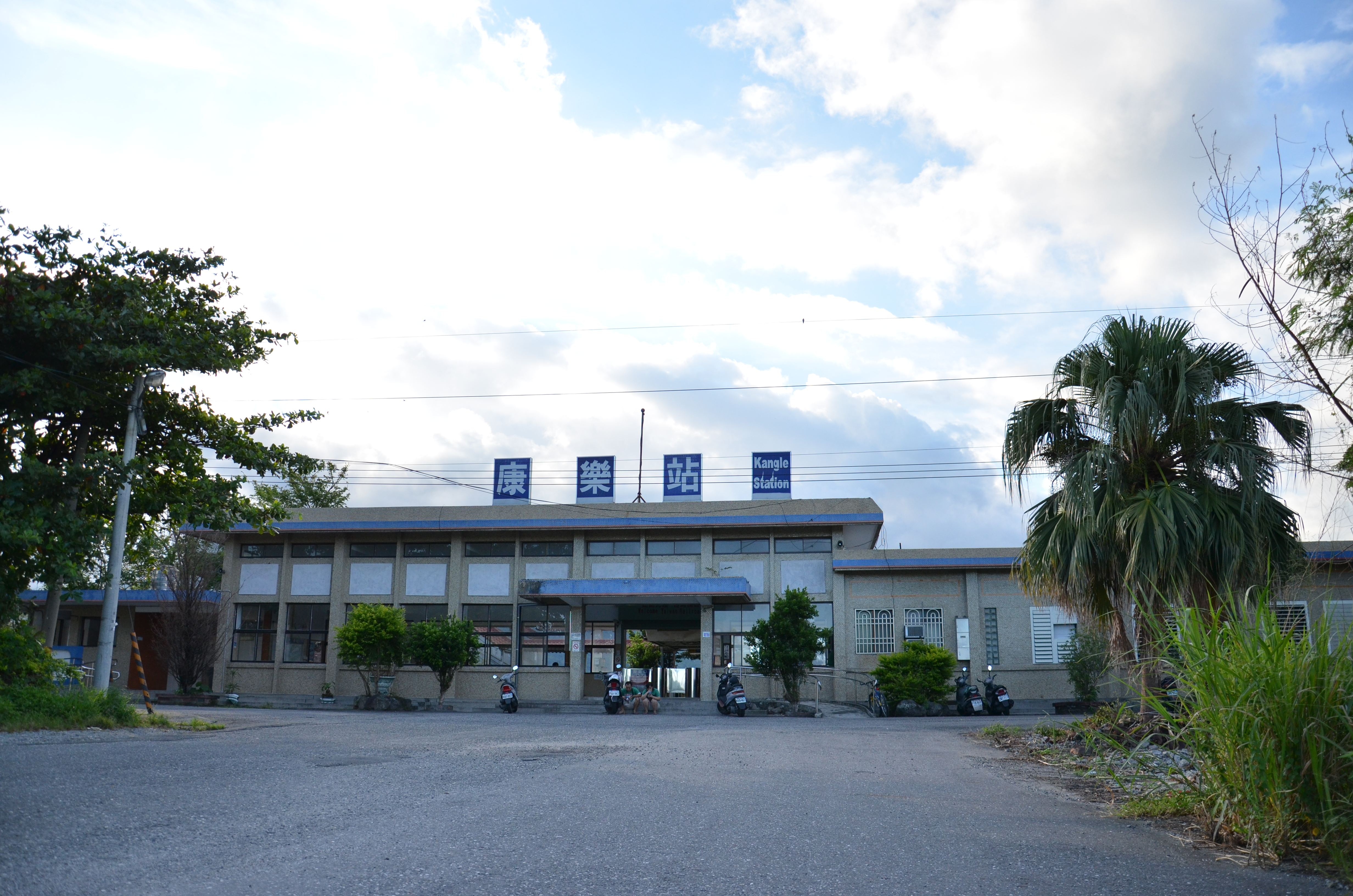 Kangle Station, Taitung City, Taitung County, Republic of China中文（台灣）: 康樂車站站房正面